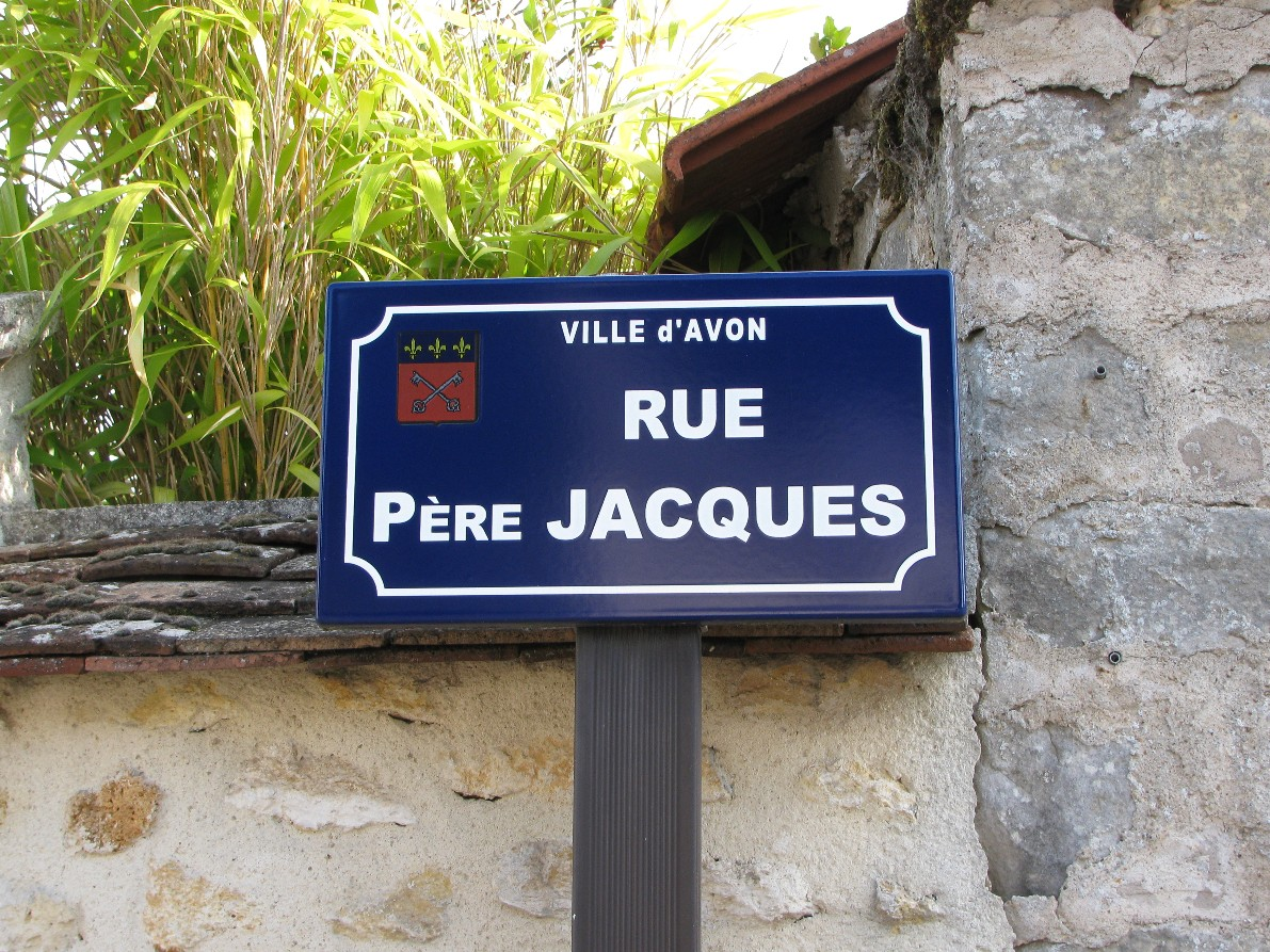 In Avon the street in front of the Carmelite Monastery was designated after Père Jacques.